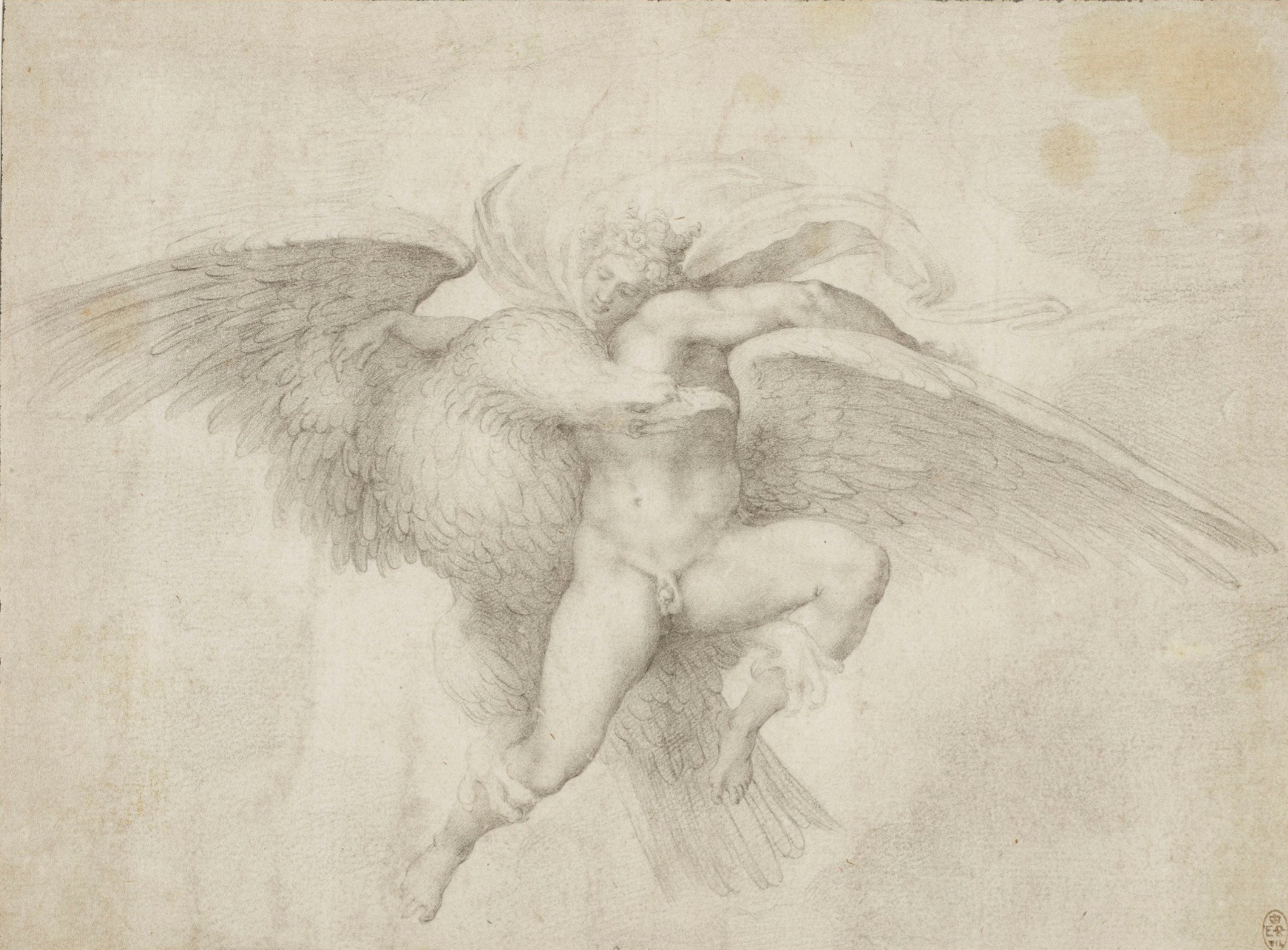 The Rape of Ganymede Black chalk RCIN 913036 The drawing depicts the myth of the beautiful young shepherd Ganymede, abducted by the god Jupiter in the form of an eagle and carried away to Olympus, where Jupiter made him his cup-bearer. It is, in all probability, a partial copy of a presentation drawing in vertical format made late in 1532 by Michelangelo for Tommaso de’ Cavalieri. Michelangelo’s drawing is probably lost, though various versions have been claimed as the original. This copy displays Clovio’s slightly tentative handling of contour, his distinctive formulation of extremities, and his habit of building up forms by thin hatched lines, regularly applied, which are then worked over. Versions of Michelangelo’s Ganymede composition exist in two formats. One is vertical in orientation, with Ganymede and the eagle in the sky and, below, a landscape with the boy’s crook, bundle and startled dog. The other consists solely of Ganymede and the eagle, and is horizontal. The present drawing is the best example of the horizontal format. This type seems to have been more widely copied than the vertical version. There are no significant differences between the ‘vertical’ and the ‘horizontal’ in their common feature, the group of the boy and the eagle. There exists no secure example of Michelangelo himself making a line-for-line replica of one of his own drawings, and it would follow that Clovio’s copy is a reduction of Michelangelo’s originally vertical composition. (Adapted from Joannides 1996, no. 15). Provenance Listed in George III's 'Inventory A,' c.1800, p.43 ('Mich: Angelo Buonarroti. / Tom. I.'), no.20: 'Ganimede on the Eagle of Jupiter….Black Chalk.' [Inv. B (c.1810): '...Ditto' ['Copies in Black Chalk'